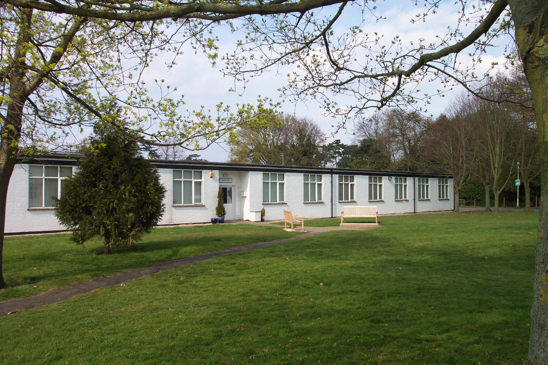 The former Reading Enterprise Hub building on the Whiteknights Park campus of the University of Reading, in the town of Reading in the English county of Berkshire. The Reading Enterprise Hub, a business incubator, was housed in 'temporary' office buildings originally built during the second world war to house government offices evacuated from London. The buildings were inherited by the University when it acquired Whiteknights Park in 1947. The building shown here was demolished by the end of 2008. It was replaced, on the same site, by the new Reading Enterprise Centre, which opened in 2011.